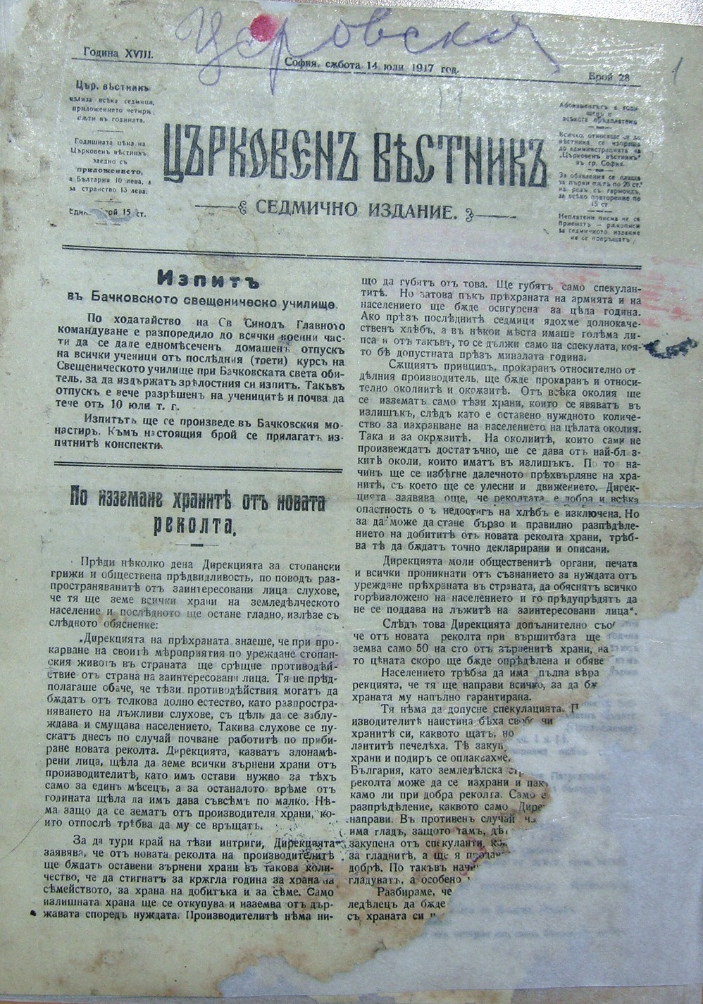 The first page of the Church newspaper, edition of July 14, 1917, Sofia. This media file is produced by Wikipedian in Residence in Category:Wikipedian in Residence at DARM in 2016.